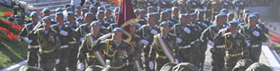 Военнослужащие 201-й российской военной базы, дислоцированной в Республике Таджикистан, приняли участие в параде, посвященного 72-й годовщине Победы в Великой Отечественной войне, который прошел в центре Душанбе.